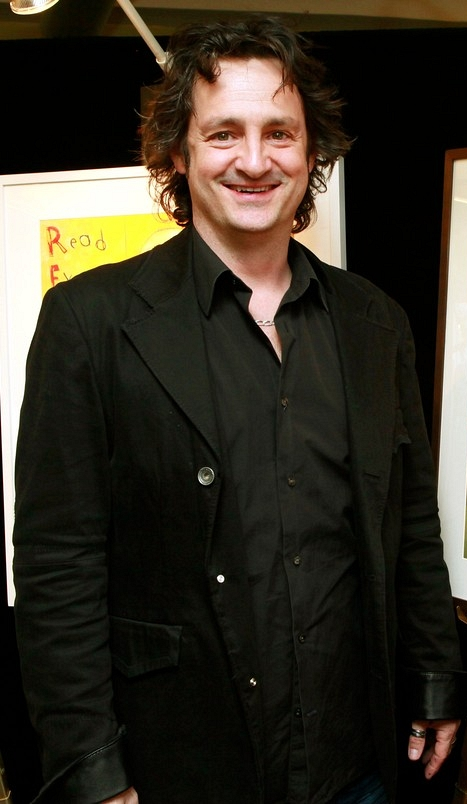 Author and illustrator Jeff Smith in New York, Thursday, May 5, 2011. More info is at